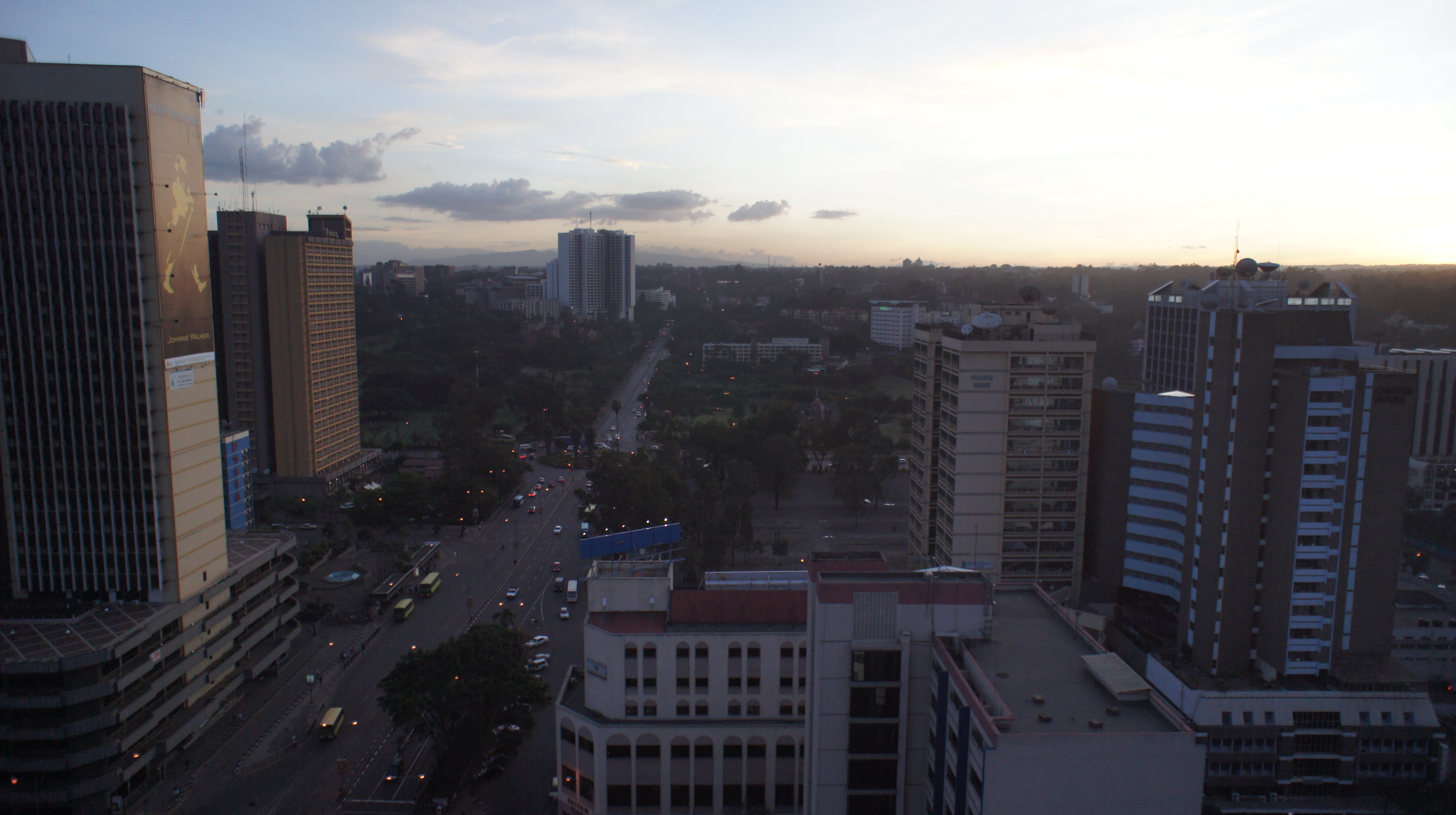 Picture of the Western side of Nairobi's CBD. Anti-Clockwise: the NSSF Building at the far end of the picture, Nyayo House and Teleposta Towers. Kenyatta Avenue is the road in the middle of the picture.